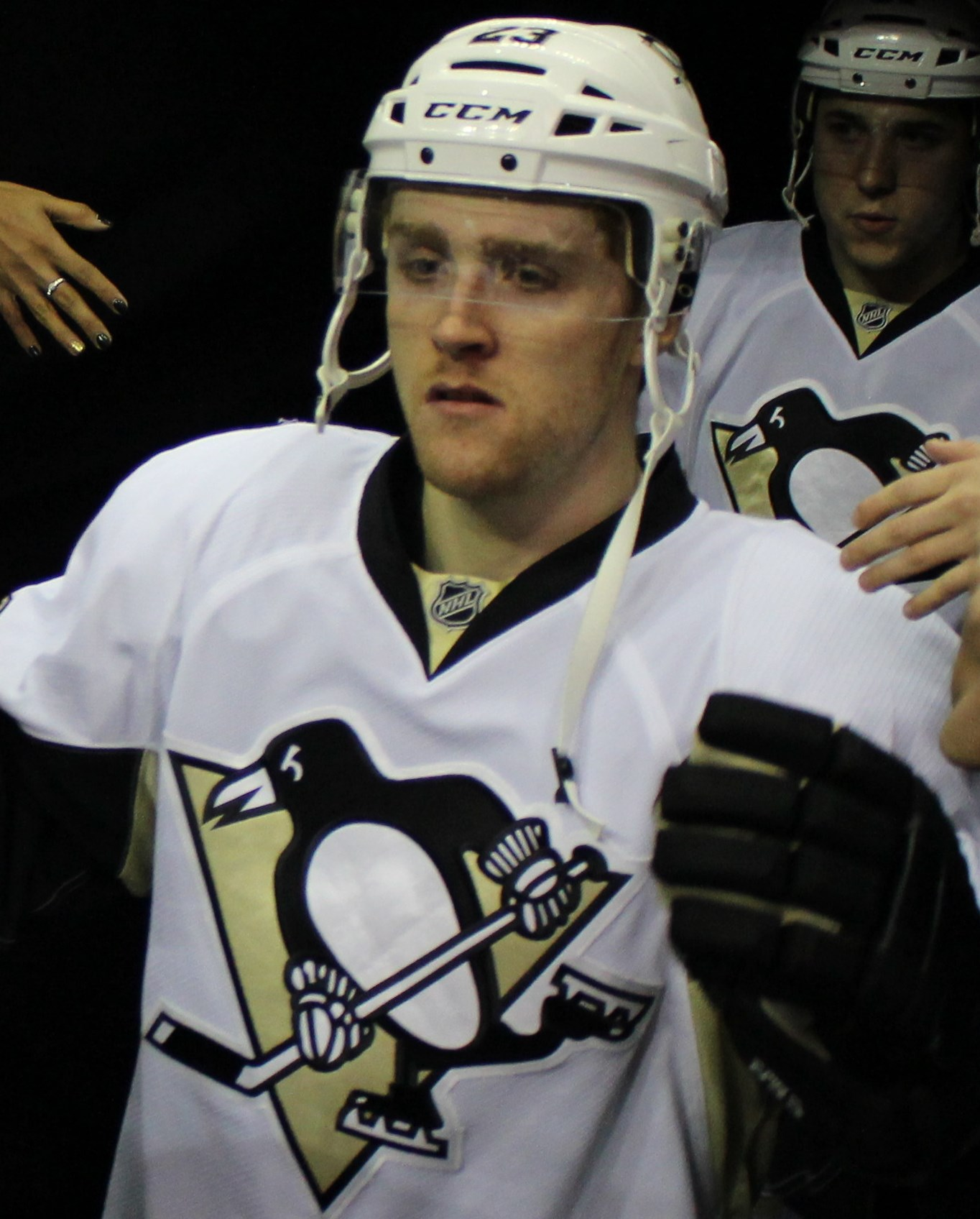 Pittsburgh Penguins forward Scott Wilson prior to a game against the Washington Capitals, Thursday, April 28, 2016 at Verizon Center in Washington, D.C.